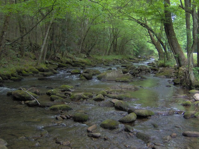 Cosby Creek in the Great Smoky Mountains National Park, in East Tennessee. This creek flows from the slopes of Mt. Cammerer, cutting through the Cosby valley before emptying into the Pigeon River just south of Newport.